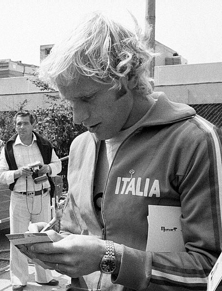 Italian football player Luciano Re Cecconi signing autographs at the World Cup. Stuttgart, June 1974.